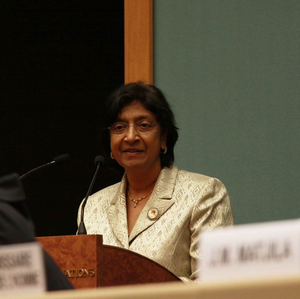 The Permanent Mission of the United States of America, the Permanent Mission of South Africa, and the Office of the High Commissioner for Human Rights hosted a screening of the movie Invictus, to observe the International Day for the Elimination of Racial Discrimination. The theme for this year “Disqualify Racism” draws attention to the interface between racism and sport. Brief introductory remarks were made by the High Commissioner for Human Rights, Ms. Navanethem Pillay, the Ambassador of South Africa Mr. Jerry Matthews Matjila and the Ambassador of the United States of America, Ms. Betty E. King. March 22, 2010 U.S. Mission Photo: Eric Bridiers